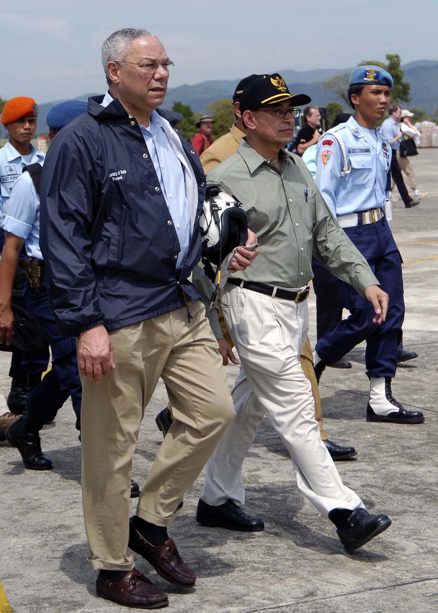 Aceh, Sumatra, Indonesia (Jan. 5, 2005) - Secretary of State Colin Powell walks with the Indonesian Coordinating Minister for People's Welfare, Alwi Shihab, after departing his plane in Banda Aceh, Sumatra, Indonesia. Powell and Yudhoyono are meeting to discuss future U.S. aide to the area. Helicopters and aircraft assigned to Carrier Air Wing Two (CVW-2) and Sailors from Abraham Lincoln are supporting Operation Unified Assistance, the humanitarian operation effort in the wake of the Tsunami that struck South East Asia. The Abraham Lincoln Carrier Strike Group is currently operating in the Indian Ocean off the waters of Indonesia and Thailand. U.S Navy photo by Photographer's Mate 2nd Class Seth C. Peterson (RELEASED)